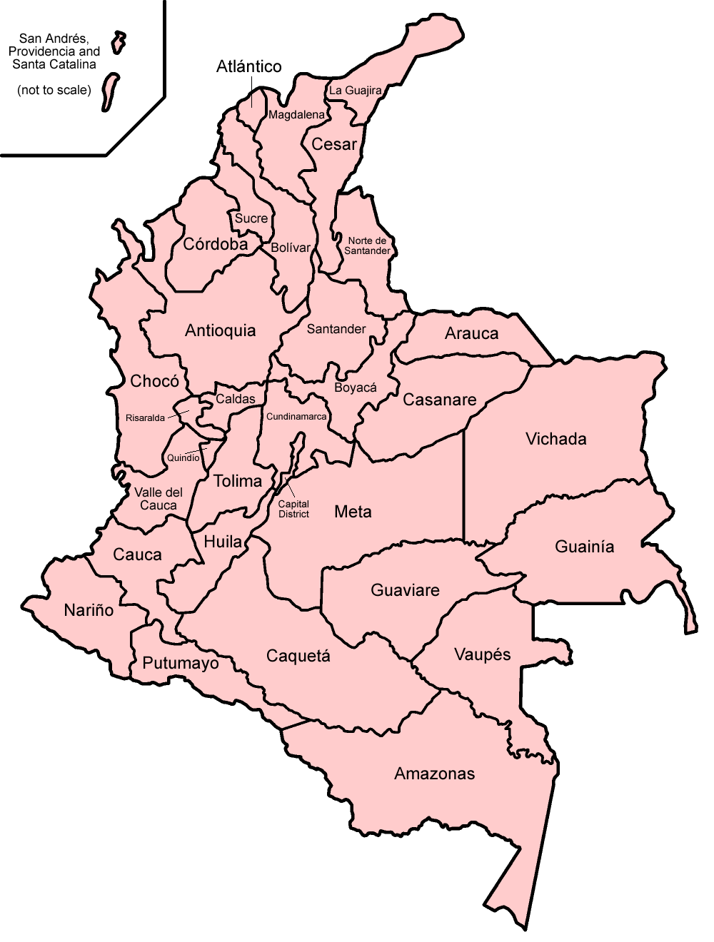 Map of the departments of Colombia in English. Made by User:Golbez.